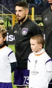 Nicolae Stanciu lining up for Anderlecht on 17 February 2017.